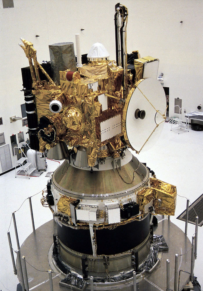 In the Payload Hazardous Servicing Facility, the integrated Mars Observer/Transfer Orbit Stage (TOS) payload is ready for encapsulation in the Titan III nose fairing. The TOS booster maiden flight was dedicated to Thomas O. Paine, a former NASA administrator who strongly supported interplanetary exploration and was an early backer of the TOS program. Launched September 25, 1992 from the Kernedy Space Flight Center aboard a Titan III rocket and the TOS, the Mars Observer spacecraft was to be the first U.S. spacecraft to study Mars since the Viking missions 18 years prior. Unfortunately, the Mars Observer spacecraft fell silent just 3 days prior to entering orbit around Mars.